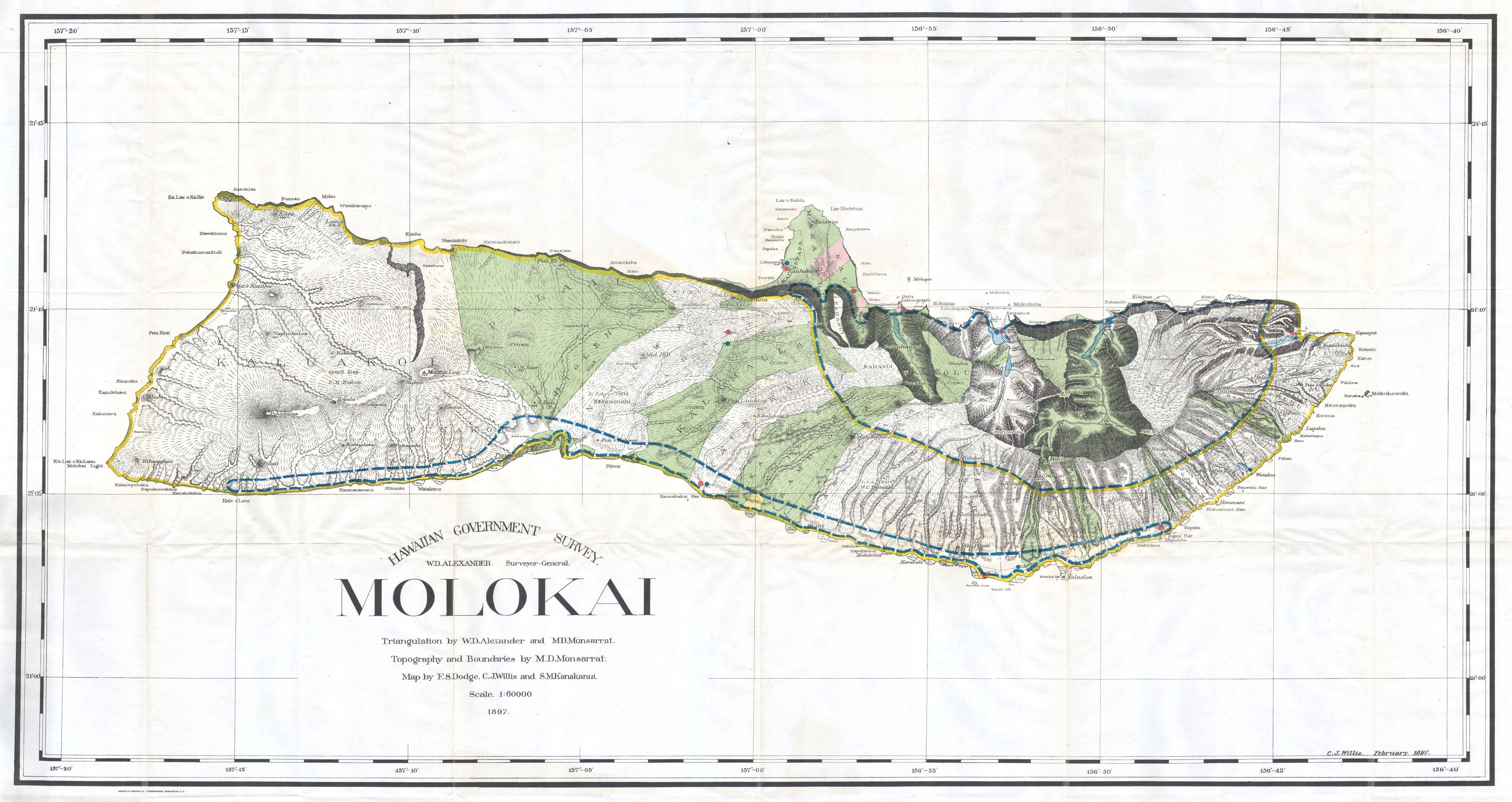 This rare and extraordinary 1897 map of the island of Molokai, in the Hawaiian group, was prepared for the 1906 Report of the Governor of the Territory of Hawaii to the Secretary of the Interior. Though the cartographic work that produced this map was started in 1878, during the Hawaiian Monarchy, the map itself, and the report that contained it, was issued following the U.S. Government’s 1898 annexation of the Hawaiian Republic. The Report was an attempt to assess and examine the newly created Hawaiian Territory’s potential for proper administration and development. Consequently the map focuses on Public Lands, Homestead Settlement Tracts, Grazing Lands, Pineapple Lands, Sugar Plantations, Forest Reserves, Forest Lands, Wet Lands, etc. It also features both practical and topographic details for use in administering the region. At the turn of the century Molokai was has large cattle ranges and considerable grazing. On the northern side of the island there is a six square mile leper colony. The colony, home to about 100 people, was established in 1866 and was considered one of the most advanced institutions of its kind in existence. The Crown Lands, that is those belonging to Kamehameha III, are depicted and drawn according to the divisions of 1848. Today Molokai, due to its lack of sandy beaches, is considered the best preserved of its major islands. The governor of Hawaii at the time this chart was made was George R. Carter. The primary triangulation for this map was accomplished by W.D. Alexander and M. D Monsarrat. The topography by M. D Monsarrat. And, the map itself was drawn by F. S. Dodge, C. J. Willis and S. M. Kanakuni. This map is heavily based upon the H. E Newton Government Survey Regional Map No. 1394.